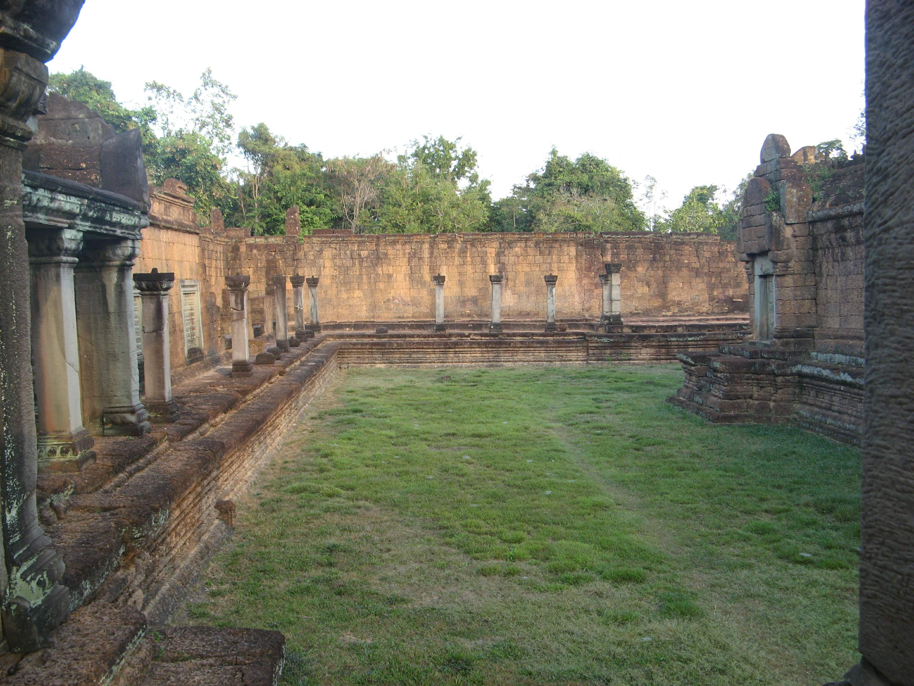 exterior enclosure of Banteay Samré, in angkor, Cambodia